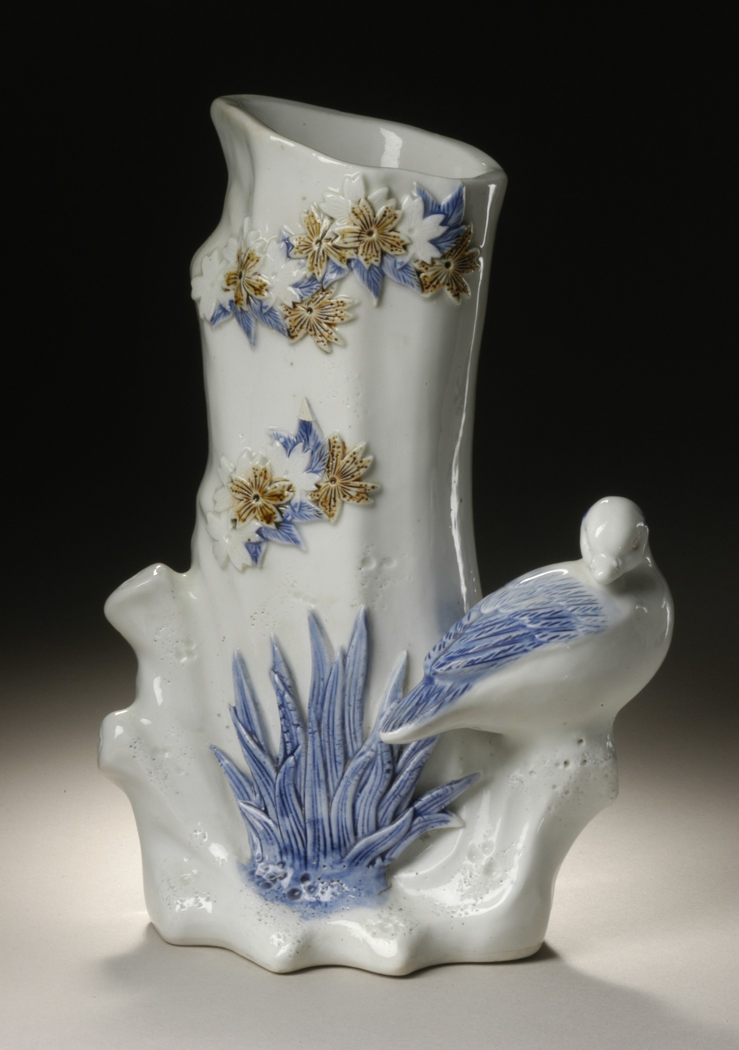 Japan, 19th century Furnishings; Accessories Hirado Mikawachi ware, porcelain with blue and brown underglaze Gift of Allan and Maxine Kurtzman (AC1998.115.17) Japanese Art